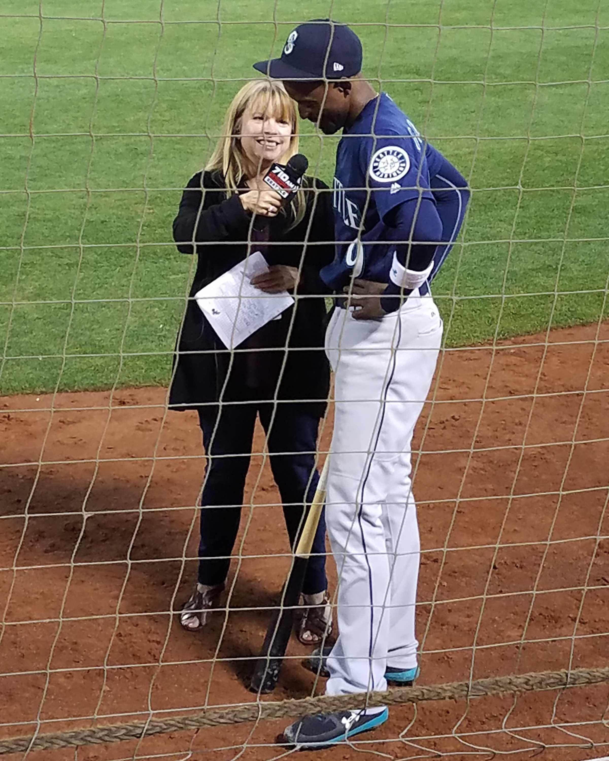 KIRO radio journalist Shannon Drayer interviews Seattle Mariners player Dee Gordon after a game in Oakland, California, on August 30, 2018.